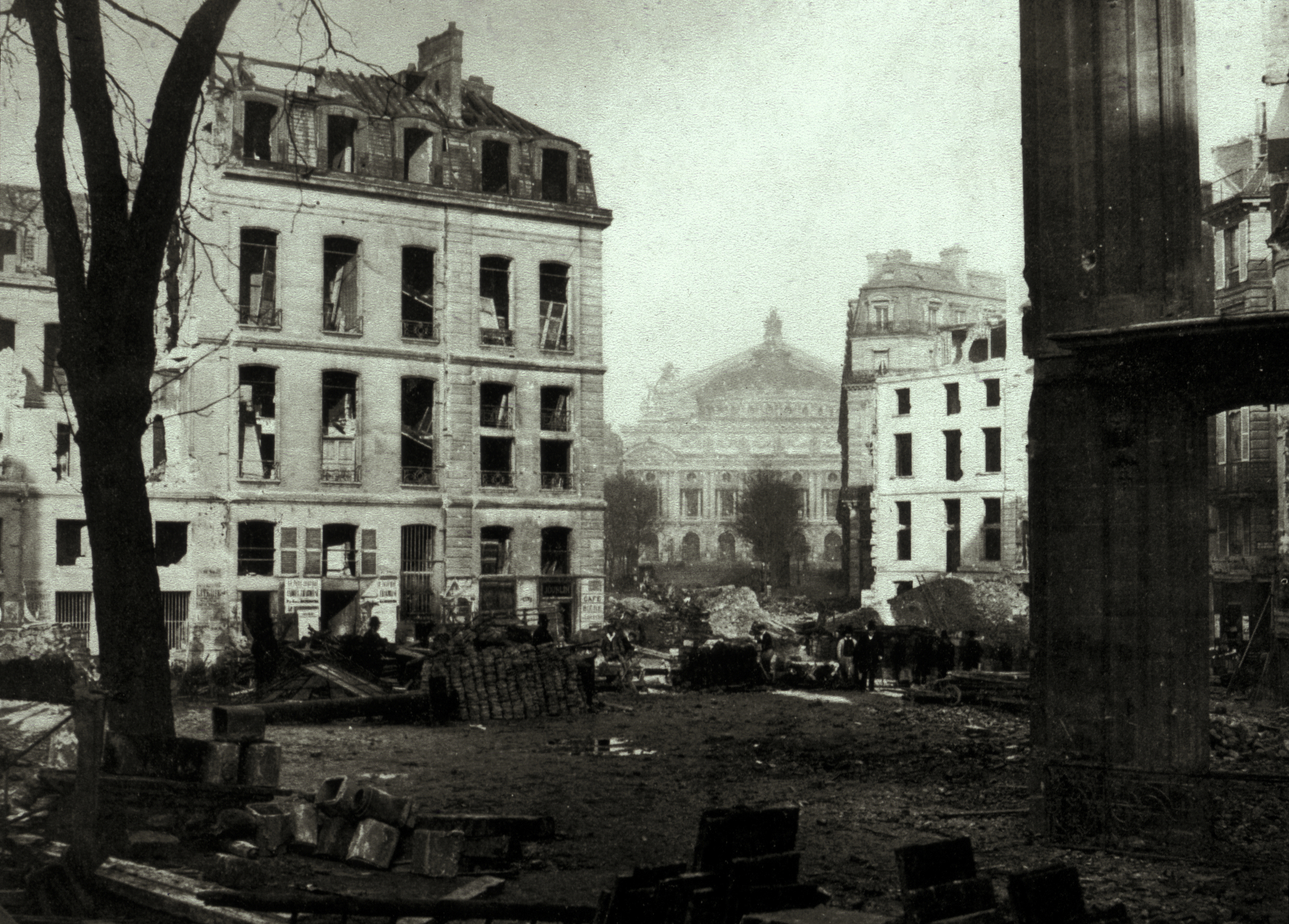 Construction for the Avenue de l'Opéra officially began in 1854, though it was not until 1873 that it received its name (it was originally called "Avenue Napoléon"). The avenue was initially opened in 1864 and situated between Rue Louis-le-Grand and the Boulevard des Capucines. It was extended, however, in 1867 and 1876, and was officially permanently opened at this latter date. It is now located between the Place du Théâtre-Français and the Place de l'Opéra. Like most of Haussmann's work, the construction of the Avenue de l'Opéra resulted in massive demolition of certain quarters and residences. By 1876, the total construction costs reached 9.8 million dollars, and 168 homes were destroyed. This photograph, taken by Charles Marville, is located at the Bibliothèque Historique de la Ville de Paris. Marville was best known for capturing images of the older Parisian quarters prior to urbanization. In 1850, Marville was hired by the city of Paris to document the changes brought on during the demolition and reconstruction of the Haussmann era. He was named the official photographer of Paris in 1862.